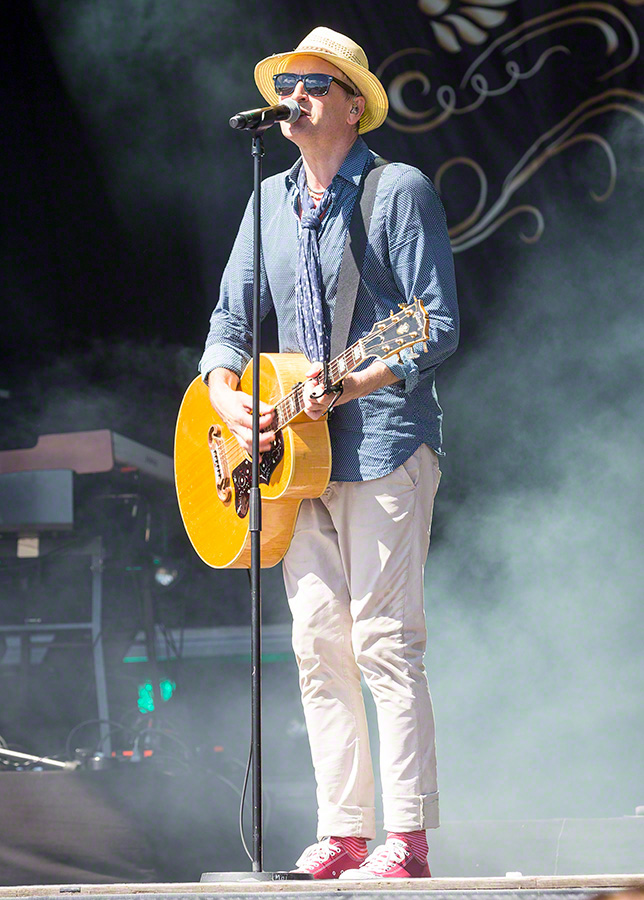 Morten Abel at the minor stage during Stavernfestivalen in Stavern on 09. July 2016. Lineup:Morten Abel (guitar / vocal)Unidentified (bass)Unidentified (keyboard)Unidentified (drums)Unidentified (percussion)